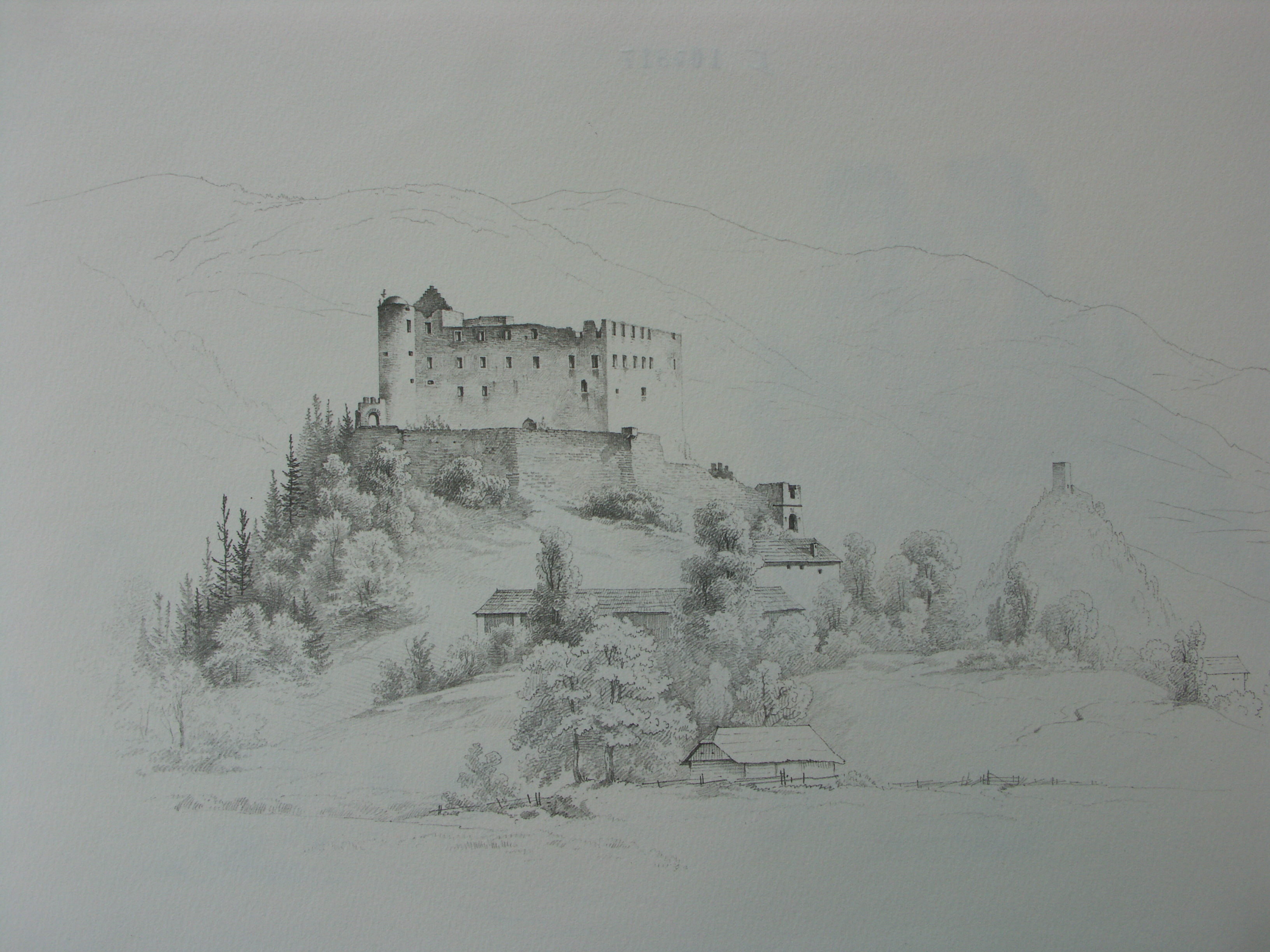 Drawing of Waisenberf from Markus Pernhart